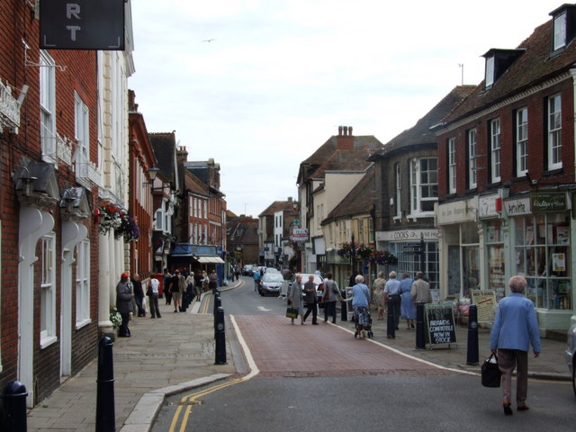 High Street, Hythe